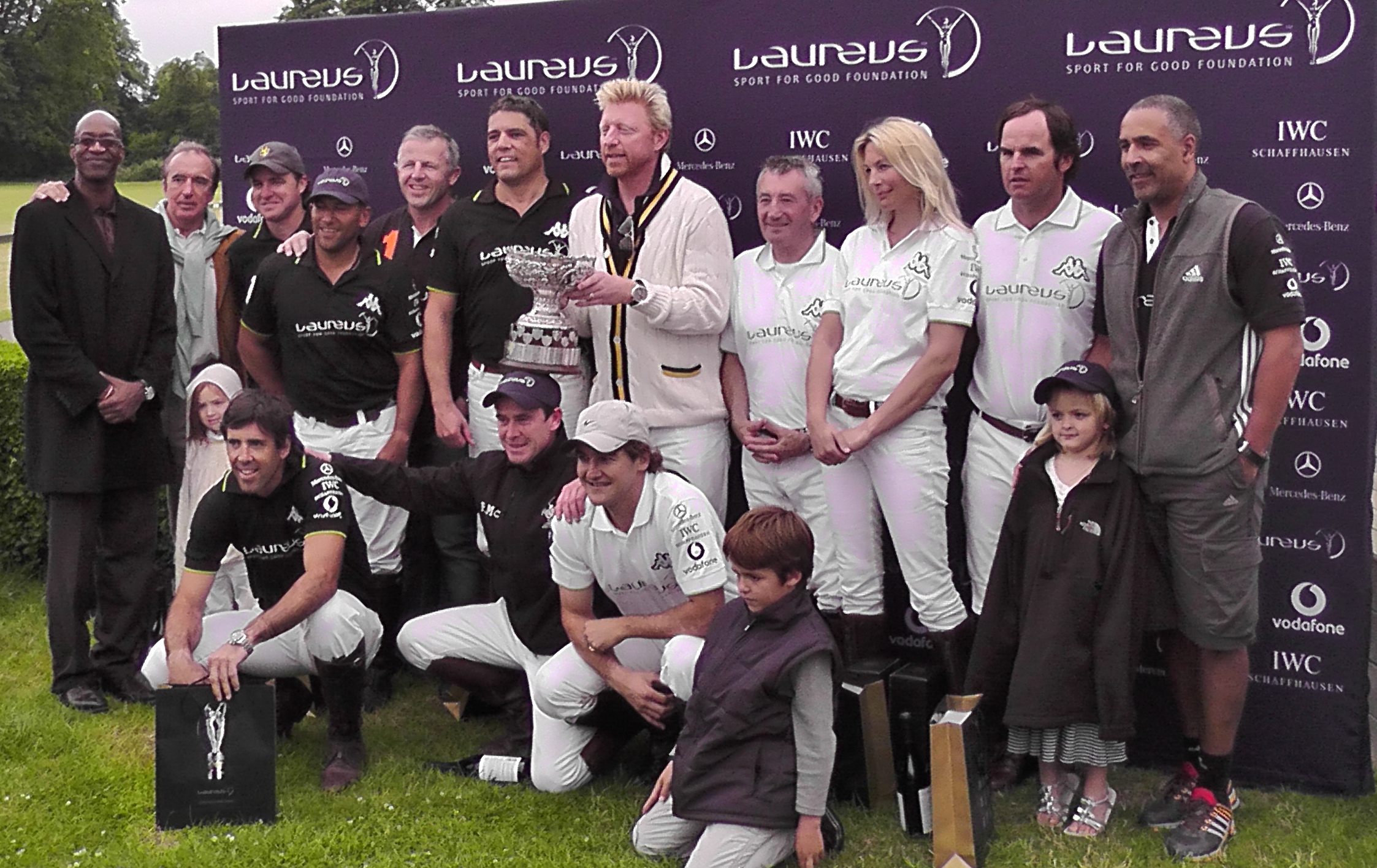 Presentation with Boris Becker at the 2010 Laureus sporting foundation fund raiser held annually at Ham Polo Club